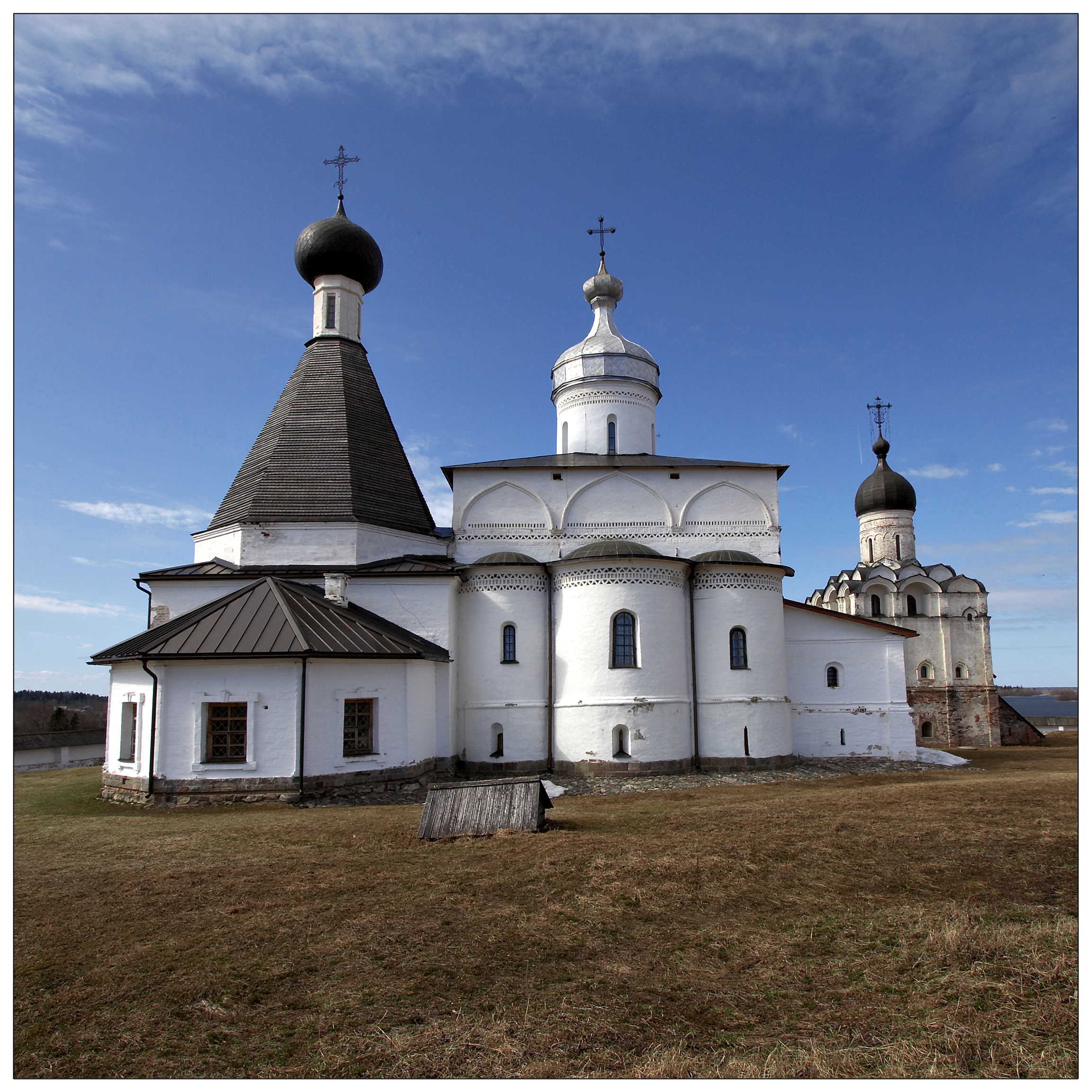 Ferapontov Monastery in Russia